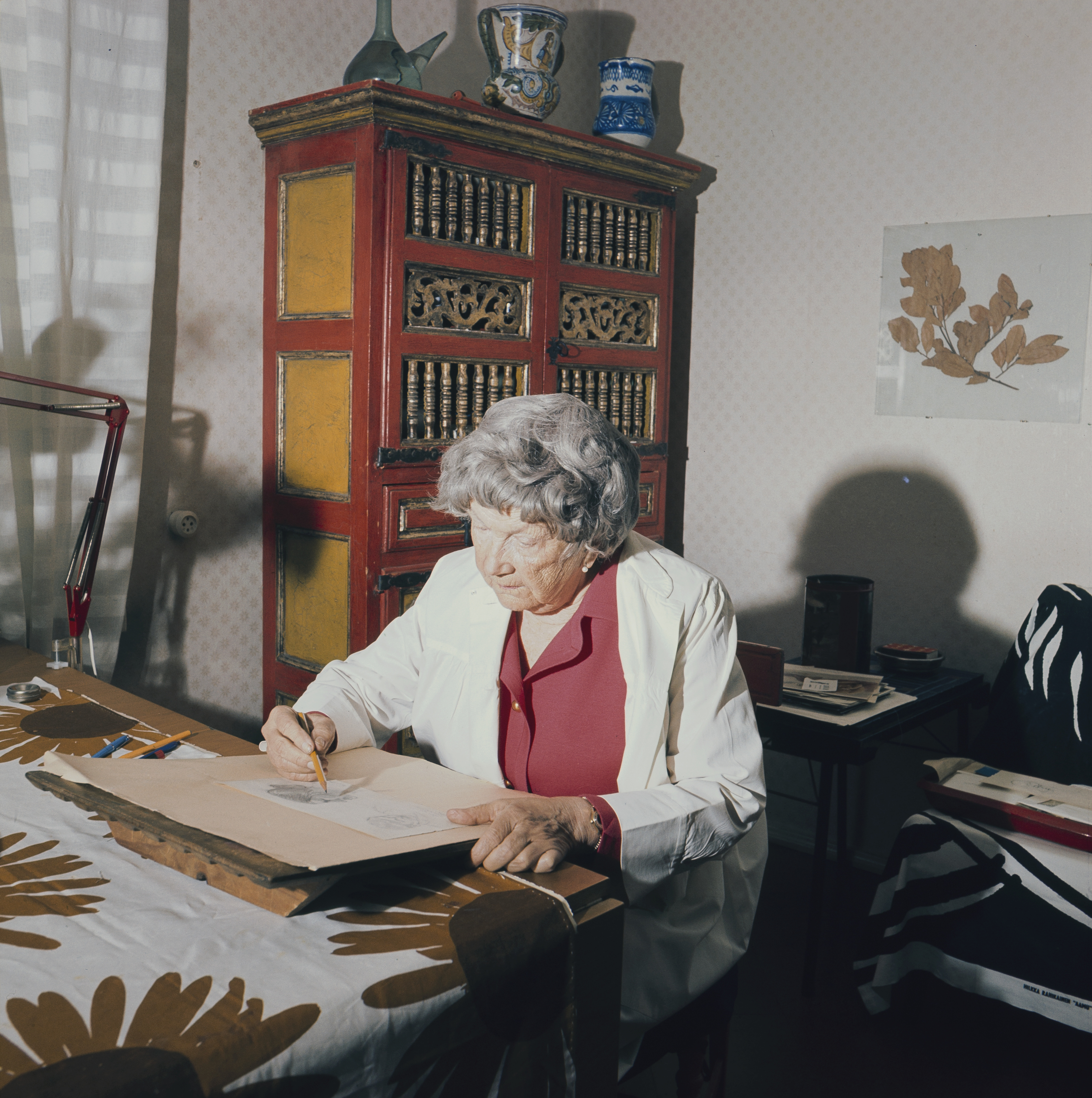 Photograph of the Finnish architect Elsa Arokallio (1892–1982).